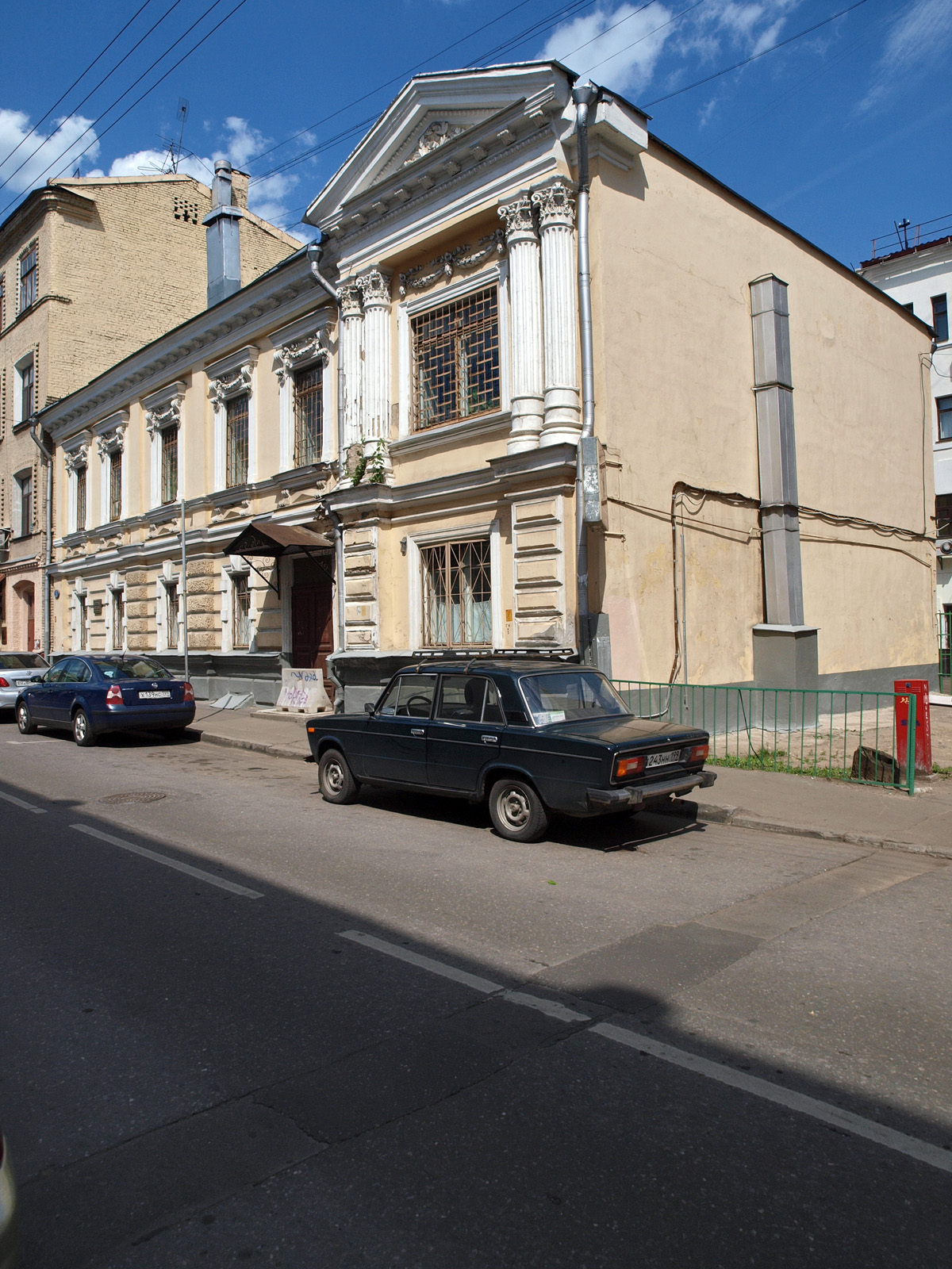 Bolshoy Kozlovsky Lane, Moscow - Rutkovsky House, 1888